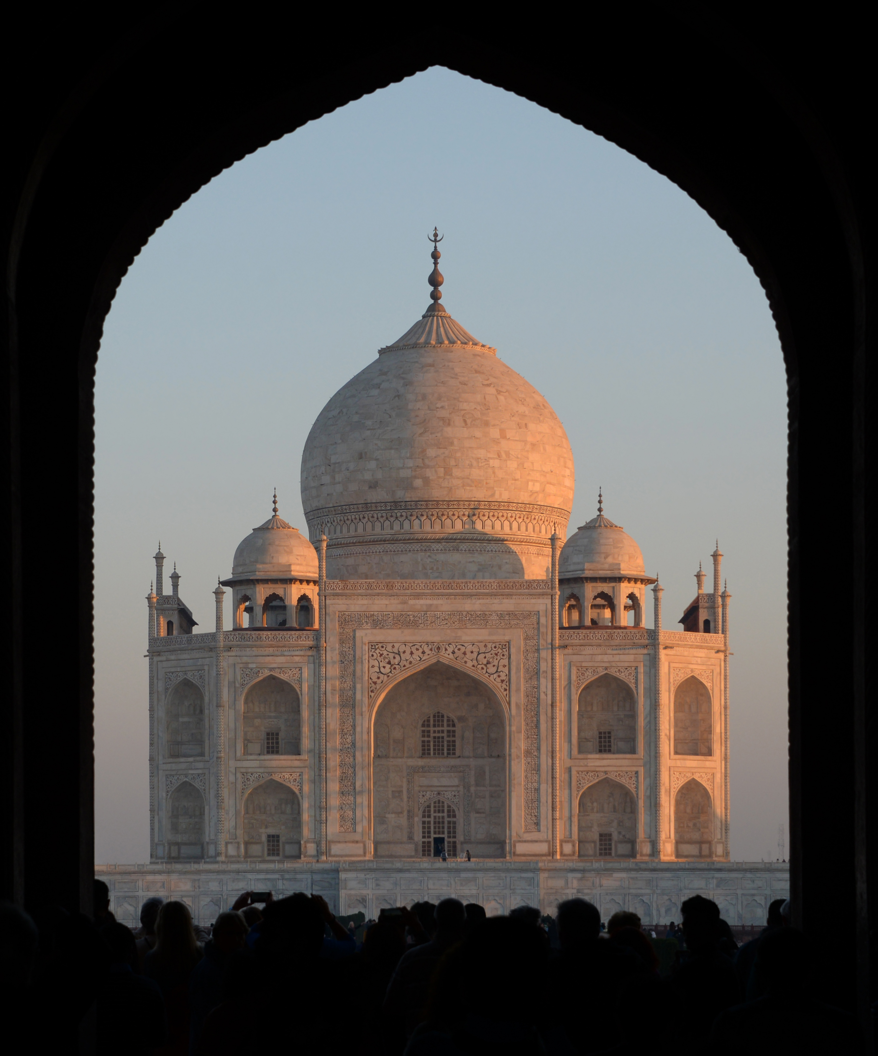 Taj Mahal from main entrance, Agra, India.